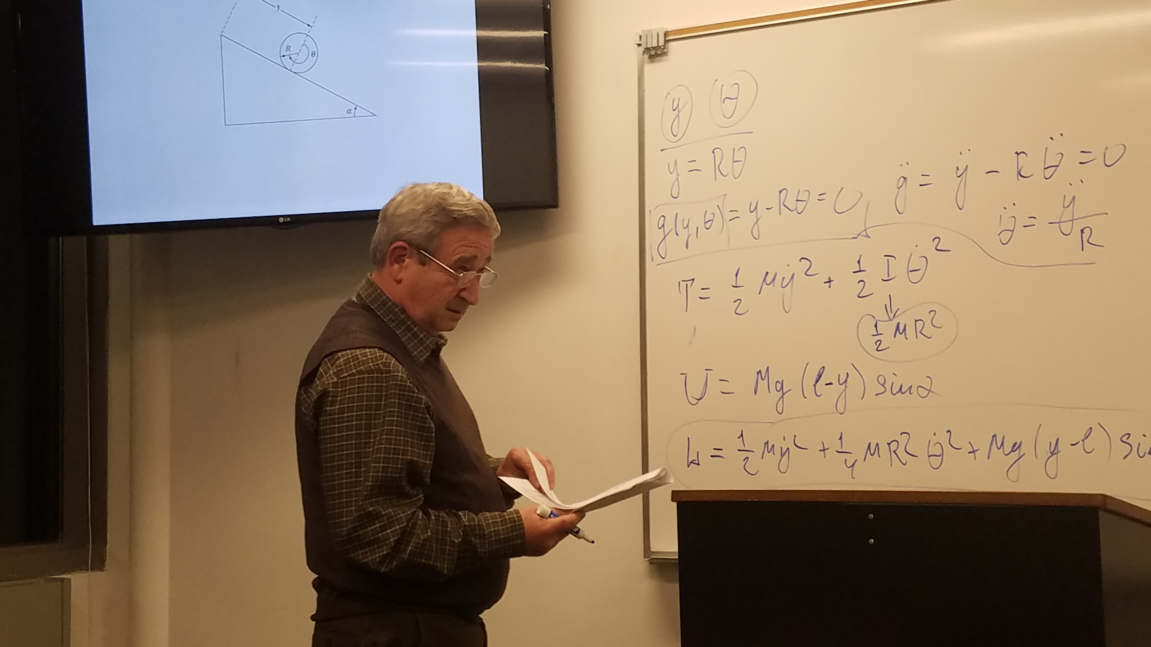 One of the classes Oleg teaches with a passion is PHY 121: Theoretical Mechanics.